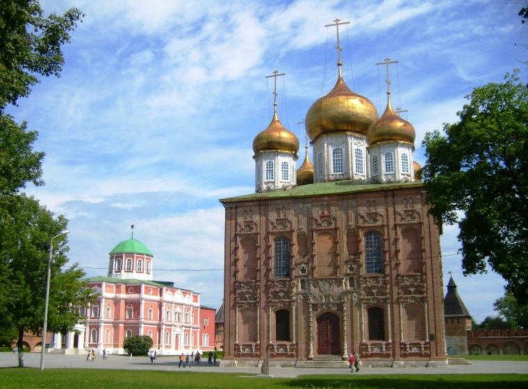 Uspenskiy Cathedral of the Tula Kremlin